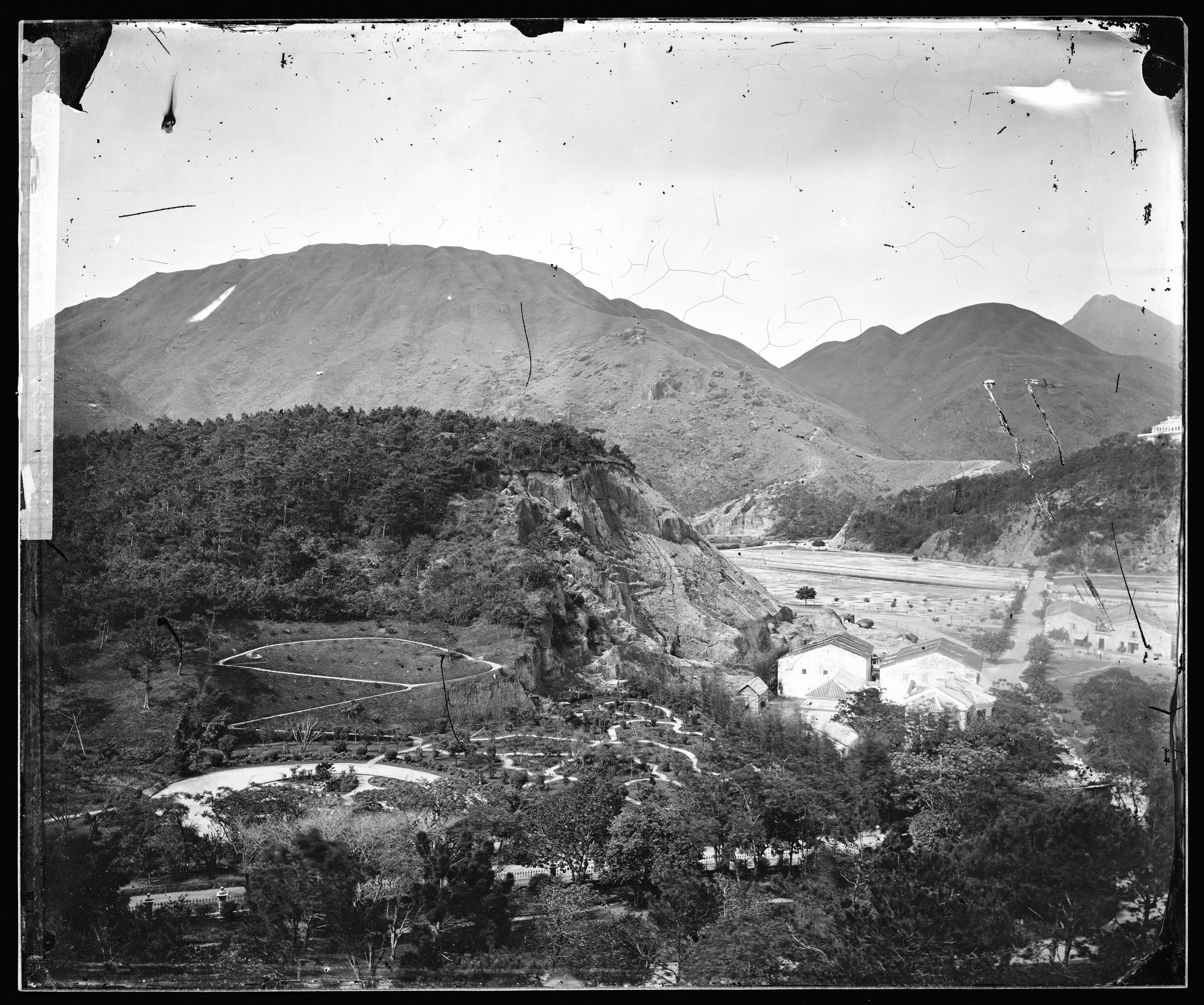 Happy Valley, Hong Kong. Photograph by John Thomson, 1868/1871. Iconographic Collections Keywords: J. Thomson